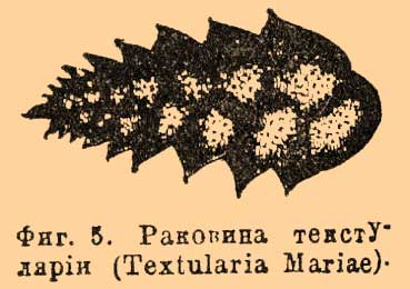 Illustration from Brockhaus and Efron Encyclopedic Dictionary (1890—1907)